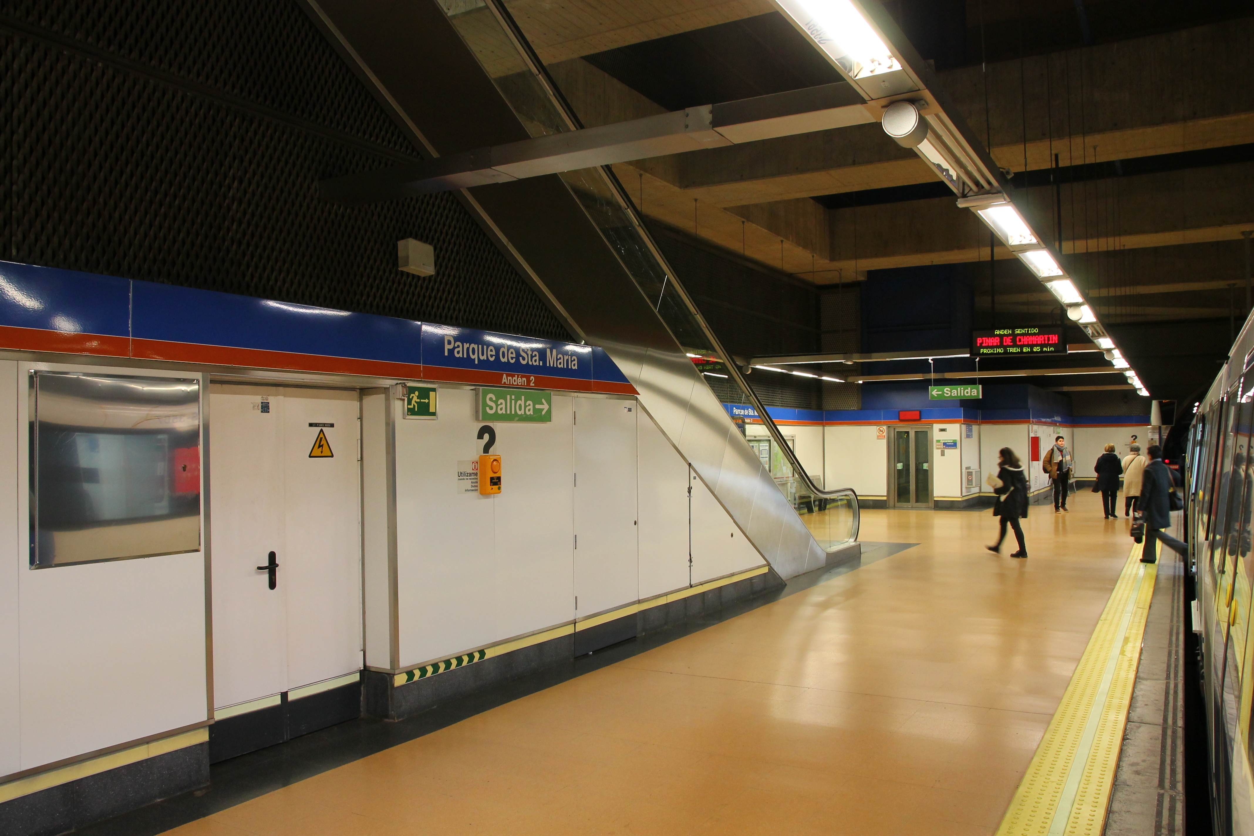 Parque de Santa Maria station. Madrid Metro.